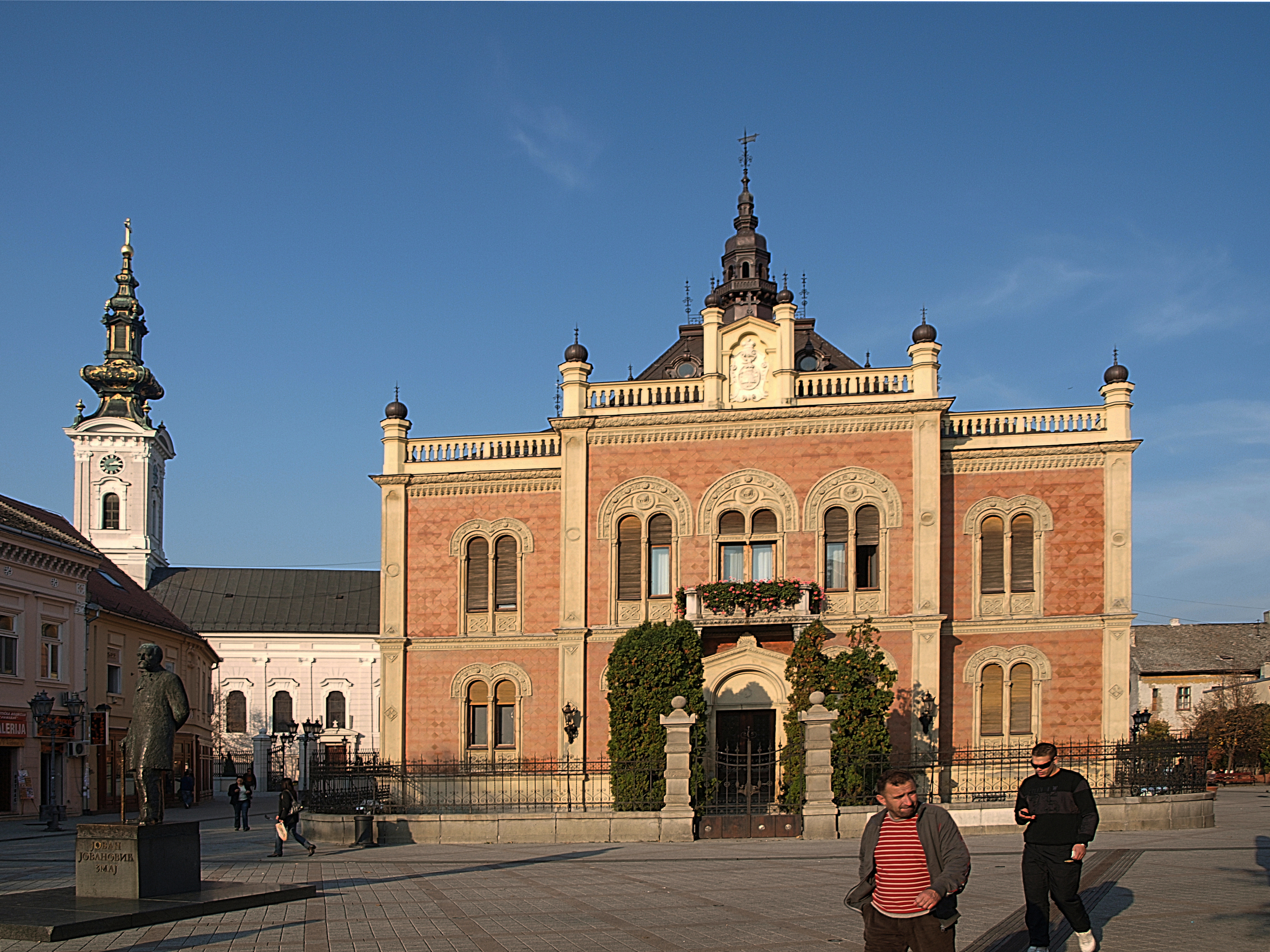 Bishop palace and Orthodox cathedral (left). In foreground monument to Jovan Jovanović-Zmaj.